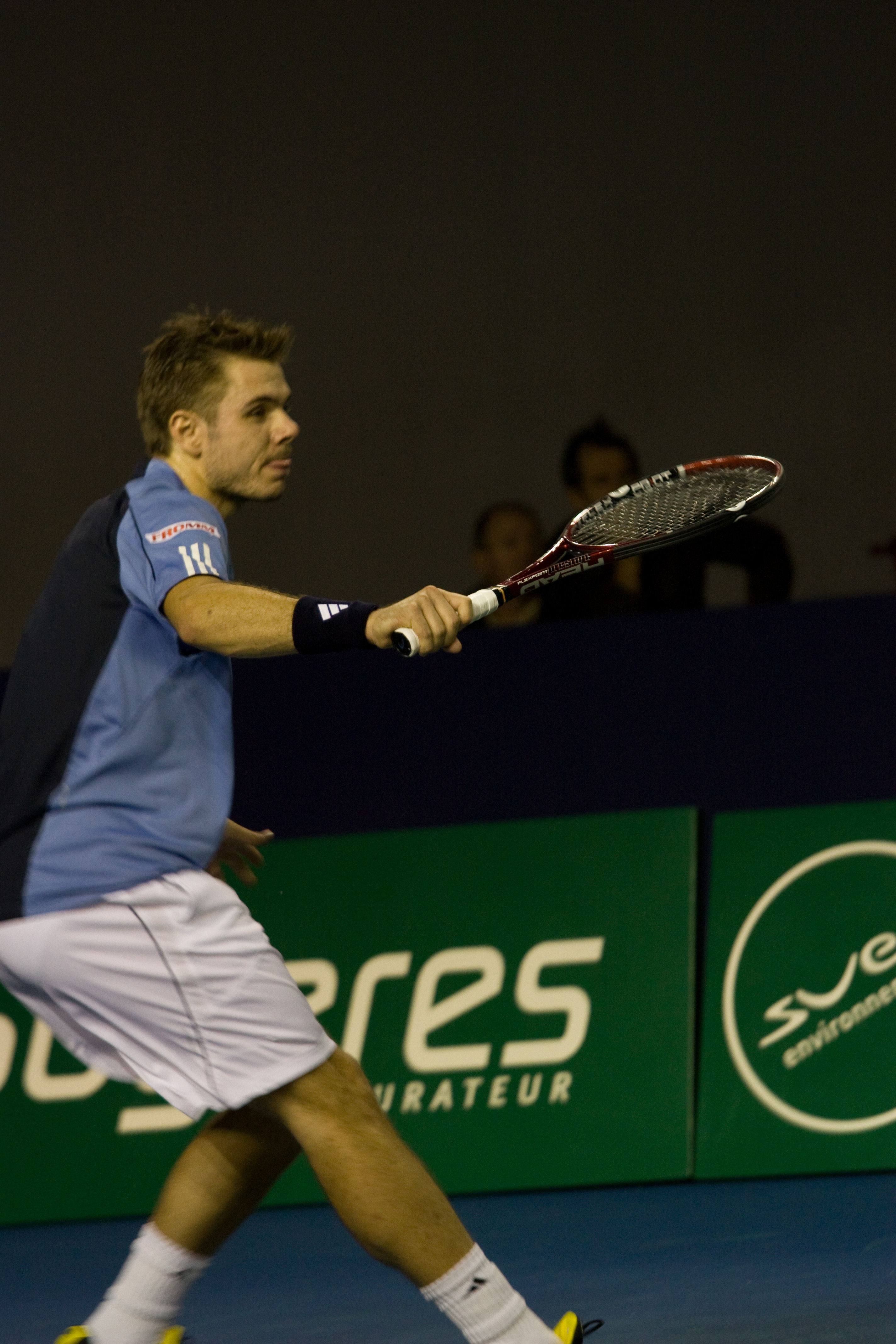 Stanislas Wawrinka against Tomas Berdych at the 2008 BNP Paribas Masters